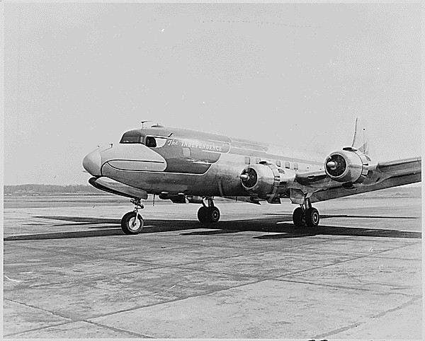 Photograph of President Harry S. Truman's airplane, a Douglas VC-118 (s/n 46-505) called "The Independence", as it prepares to depart Washington National Airport to carry Truman to Key West, Florida (USA), for a vacation on 2 March 1951. In 1947 USAAF officials ordered the 29th production DC-6 to be modified as a replacement for the aging Douglas VC-54C Skymaster "Sacred Cow" presidential aircraft. It differed from the standard DC-6 configuration in that the aft fuselage was converted into a stateroom. Also, the main cabin seated 24 passengers or could be made up into 12 "sleeper" berths. The VC-118 was formally commissioned by the USAAF on 4 July 1947, and was nicknamed "Independence" for Truman’s hometown in Missouri (USA). The aircraft is today in display at the National Museum of the USAF.